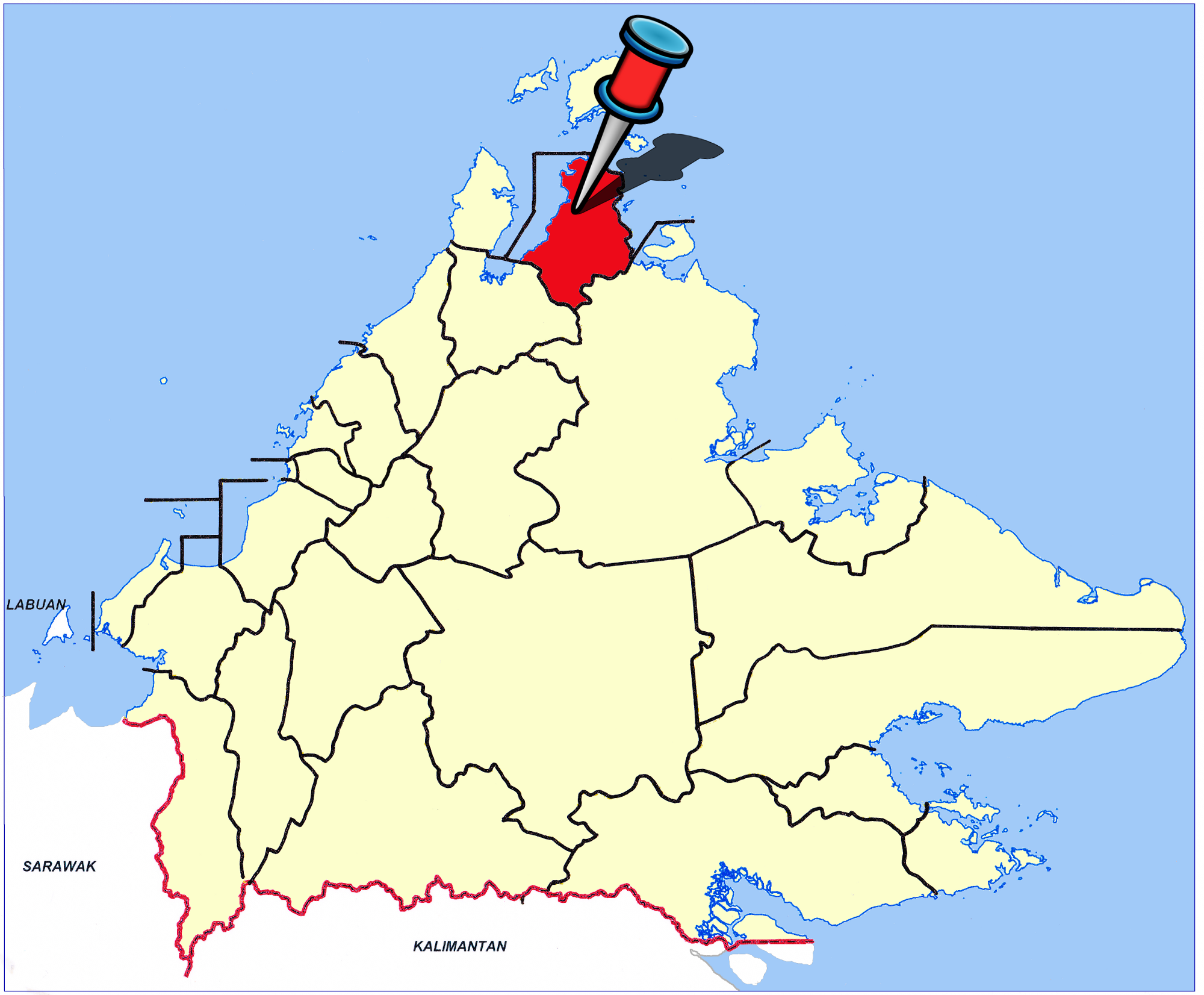 Sabah: Location map of District and Town Patas